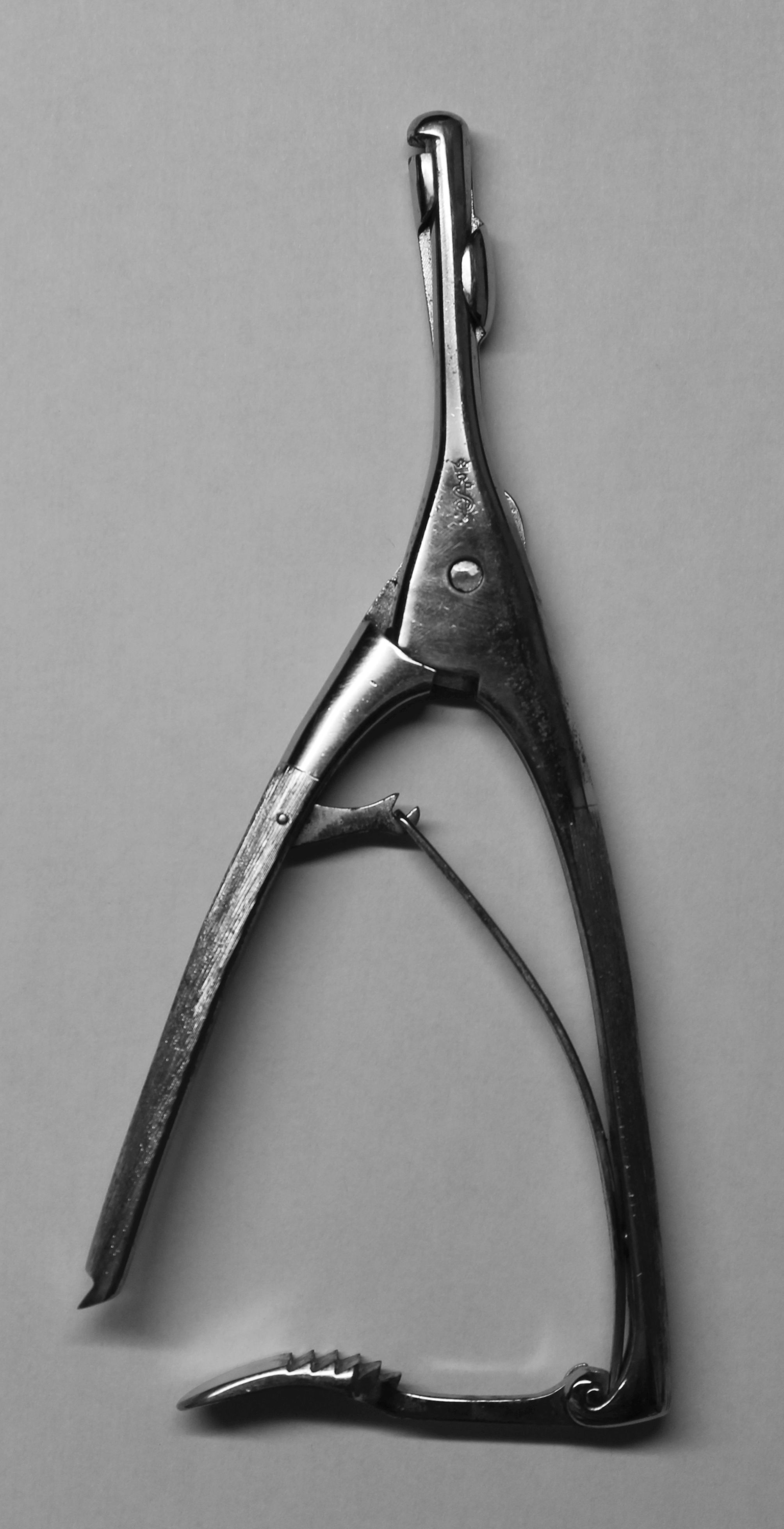 Needle holder, type Hagedorn